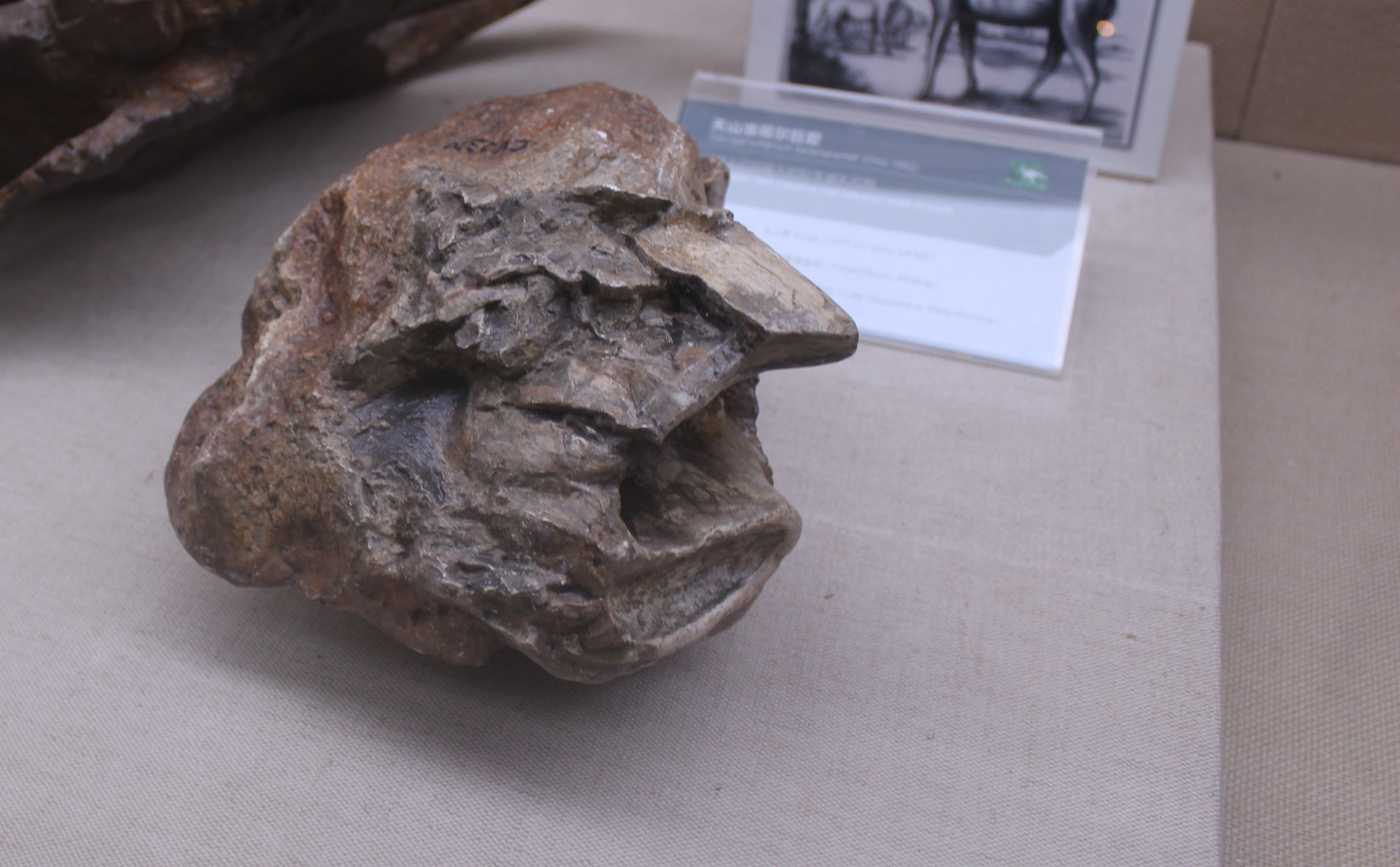 Tooth of Dzungariotherium orgosense on display at the Paleozoological Museum of China.